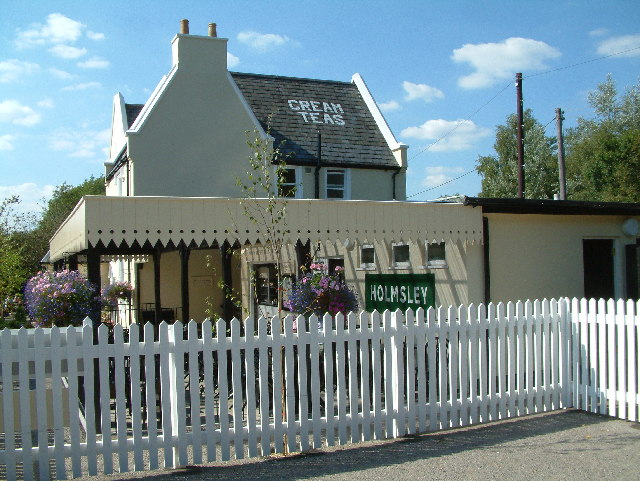 Holmsley Tea Rooms. This building was the old station for Holmsley on the old Castleman Corkscrew.